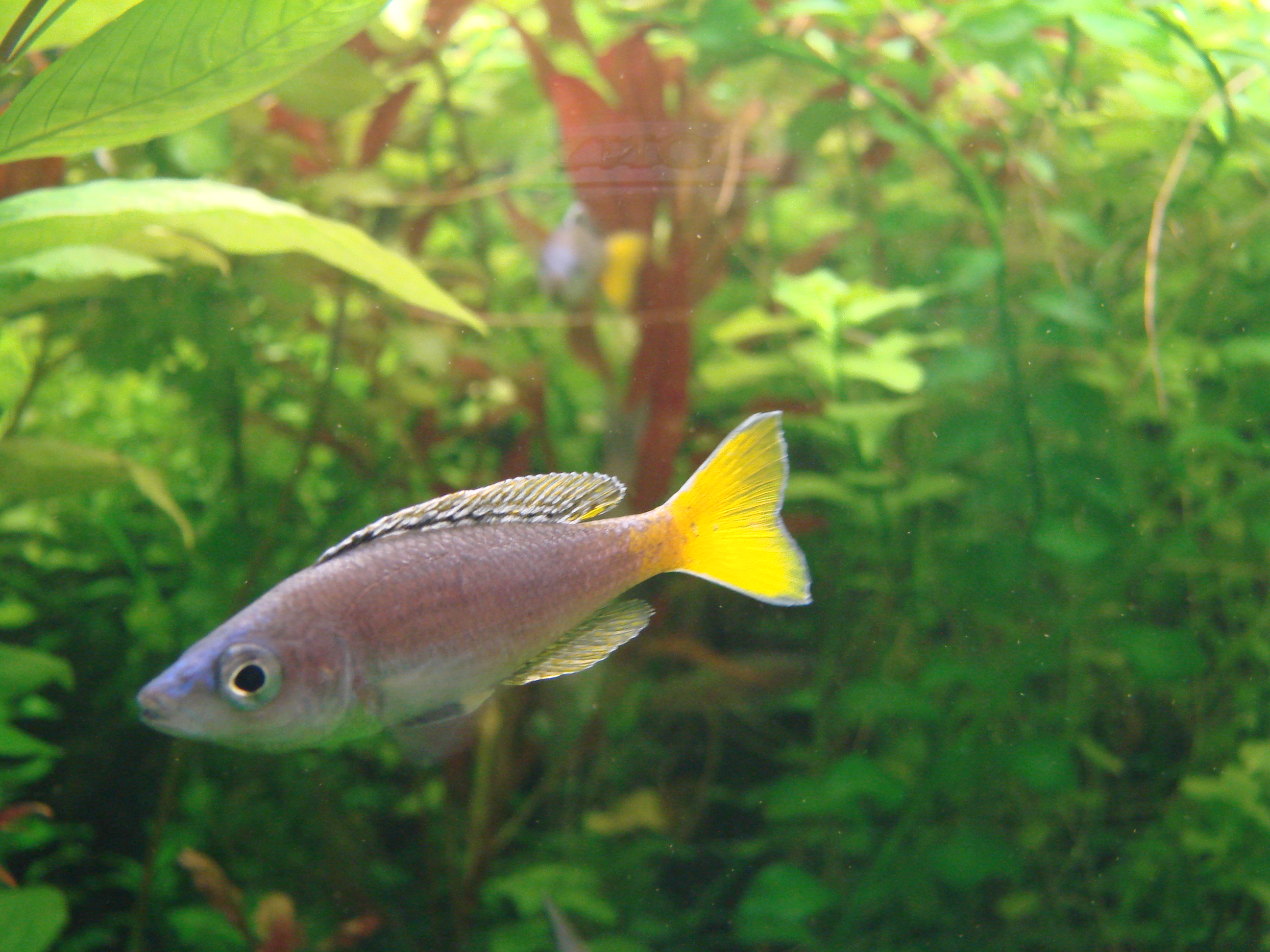 Picture taken in the zoo of Wrocław (Poland): Cyprichromis leptosoma (Boulenger, 1898)